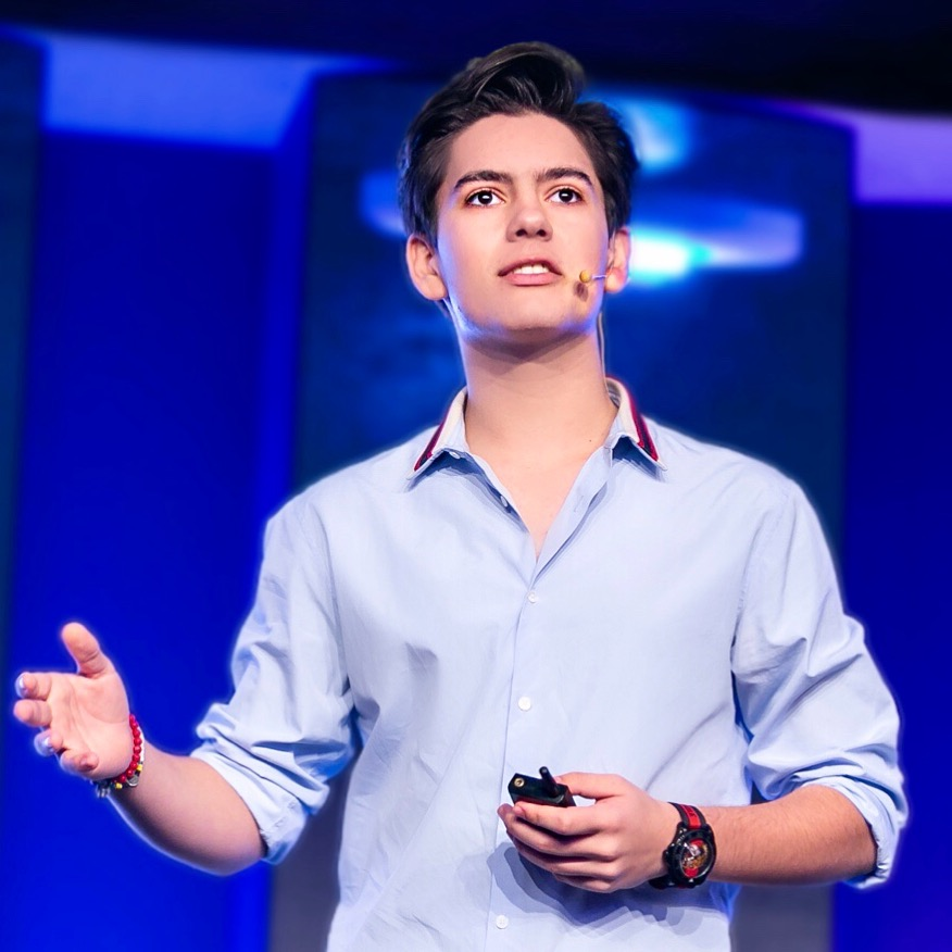 Jenk talking at the SME: Beyond Borders Conference Dubai 2019